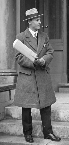 Sir Jack Hobbs (1882 - 1963), (left) testing a cricket bat. British cricket player, he played in county cricket for Cambridgeshire (1904) and Surrey (1905 - 1934), and for England (1908 - 1930), made 5410 runs in 61 Test matches (average 56.94), and a record number of 197 centuries and 61,167 runs in first-class cricket. .